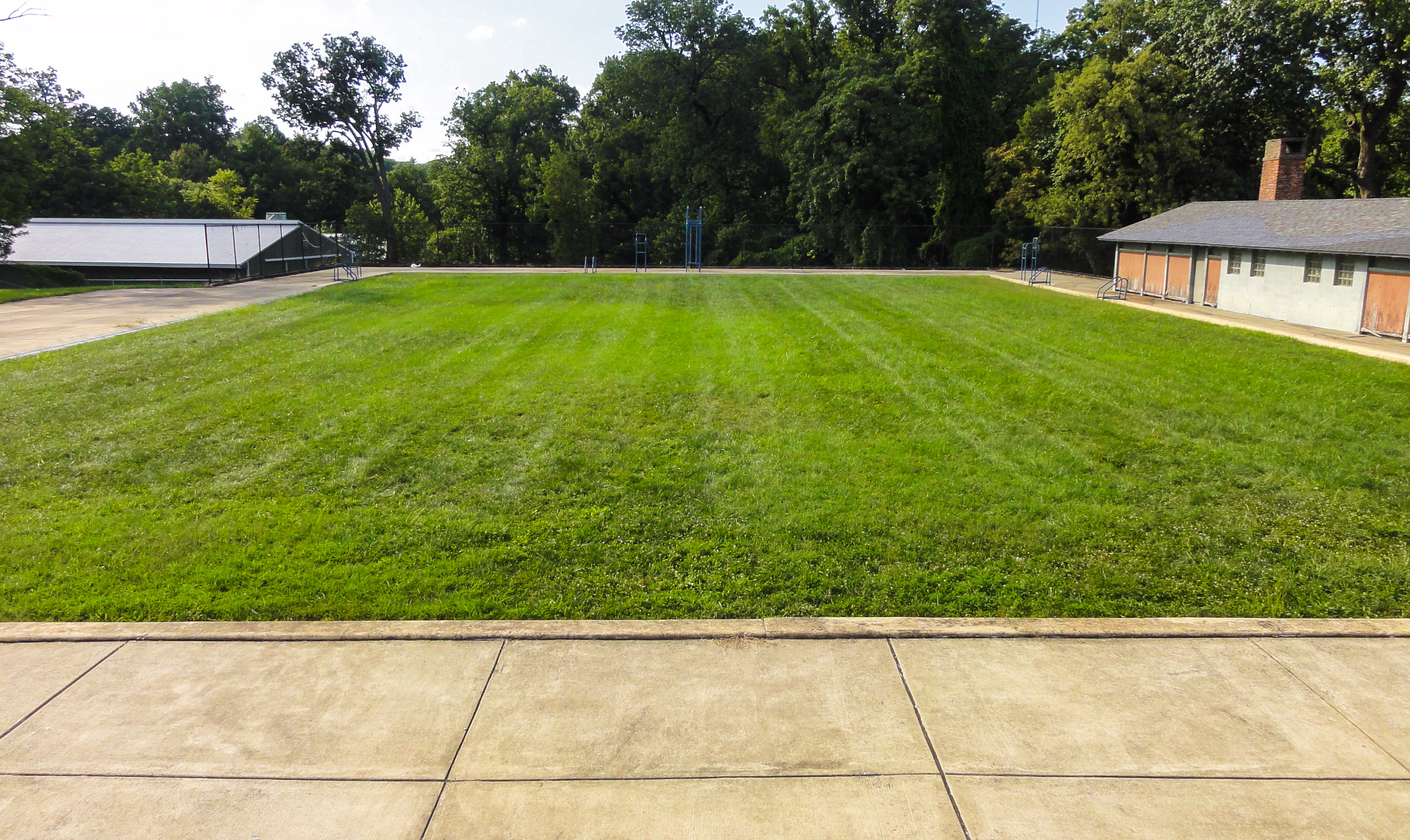 The Memorial Pool in Druid Hill Park, Baltimore, MD, by artist Joyce J. Scott. Photo by Graham Coreil-Allen.